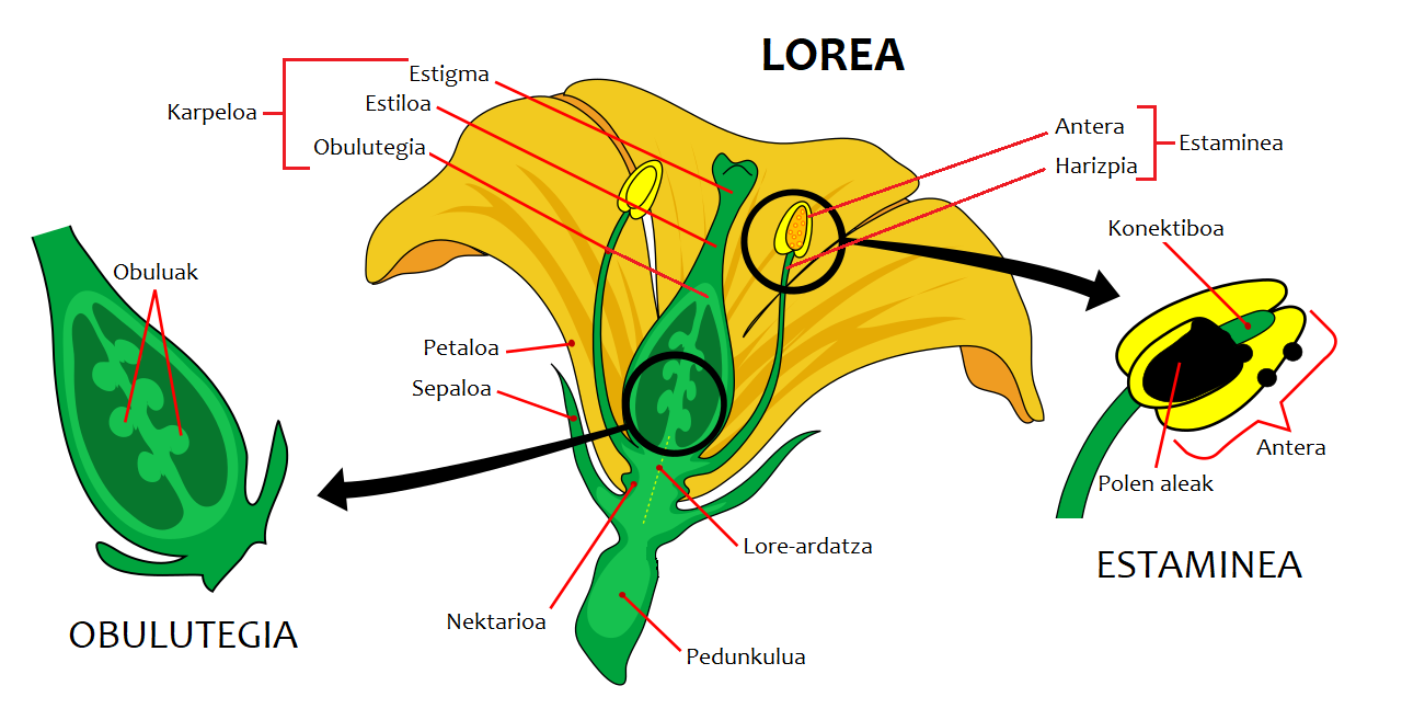 The parts of the flowers.